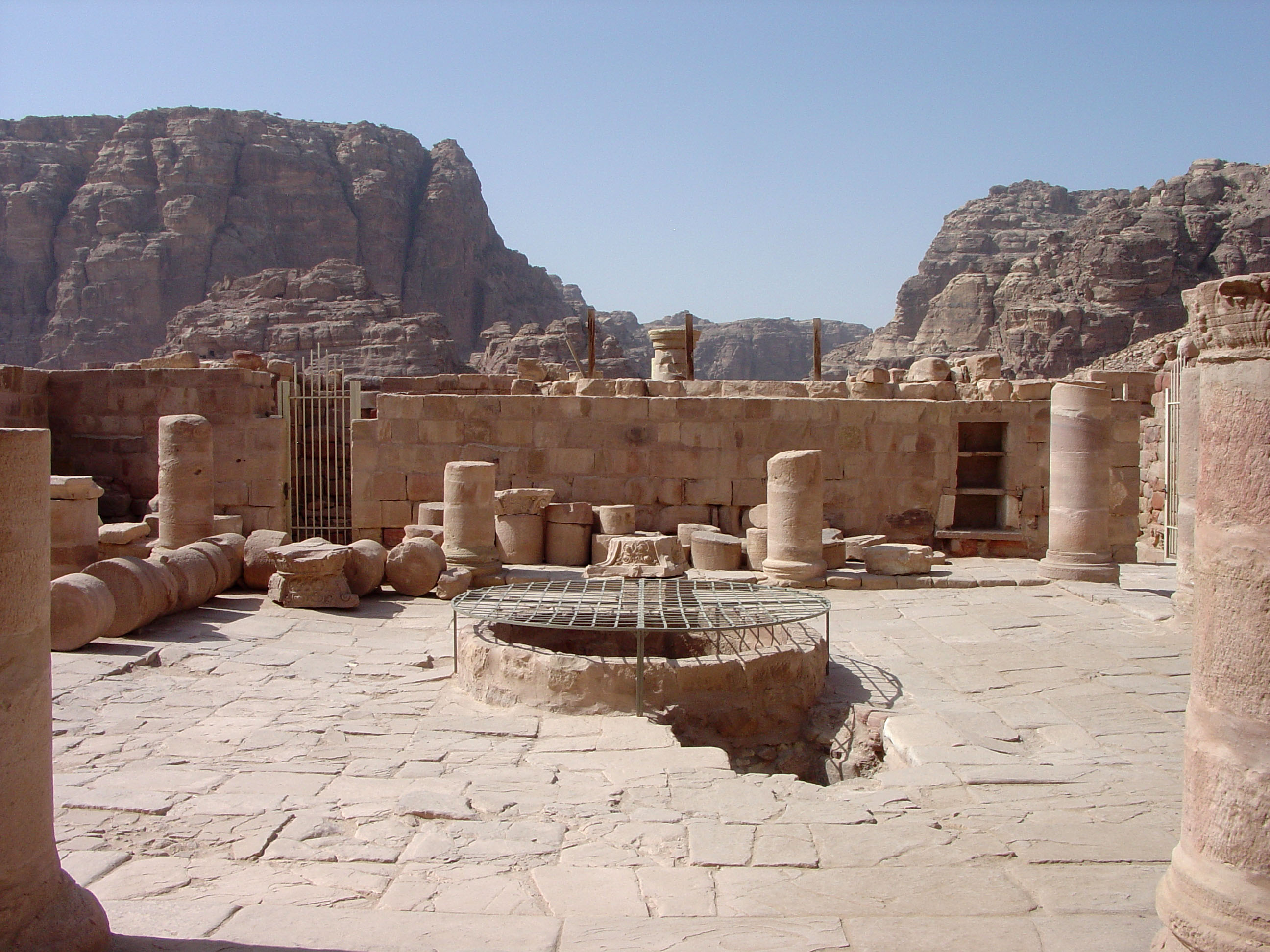 Atrium of Petra Church, Jordan